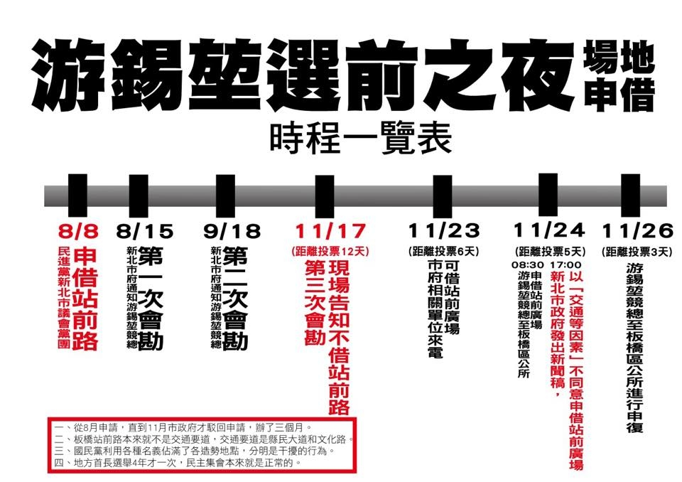 游錫堃前之夜場地申借時程一覽表